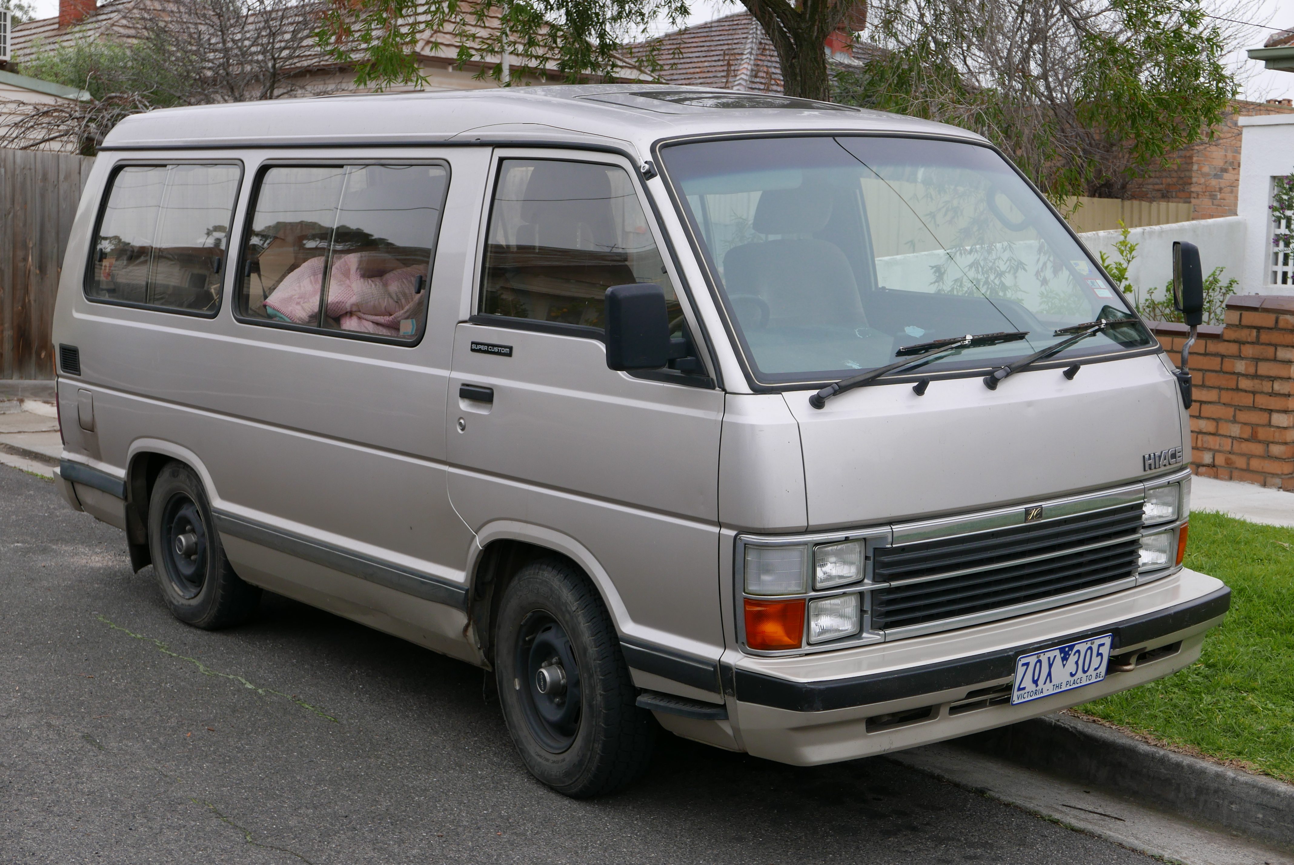 1986 Toyota HiAce (LH51G) Super Custom van. This is a grey import from Japan, complianced for Australia at an unknown date (the vehicle registration information below is incorrect). Photographed in Coburg, Victoria, Australia. Vehicle registration enquiry results Jurisdiction Victoria Registration ZQX305 Chassis code LH51G0010632 Engine code 2L1236768 Compliance date 1900-01 (not a typo) Year of manufacture 1986